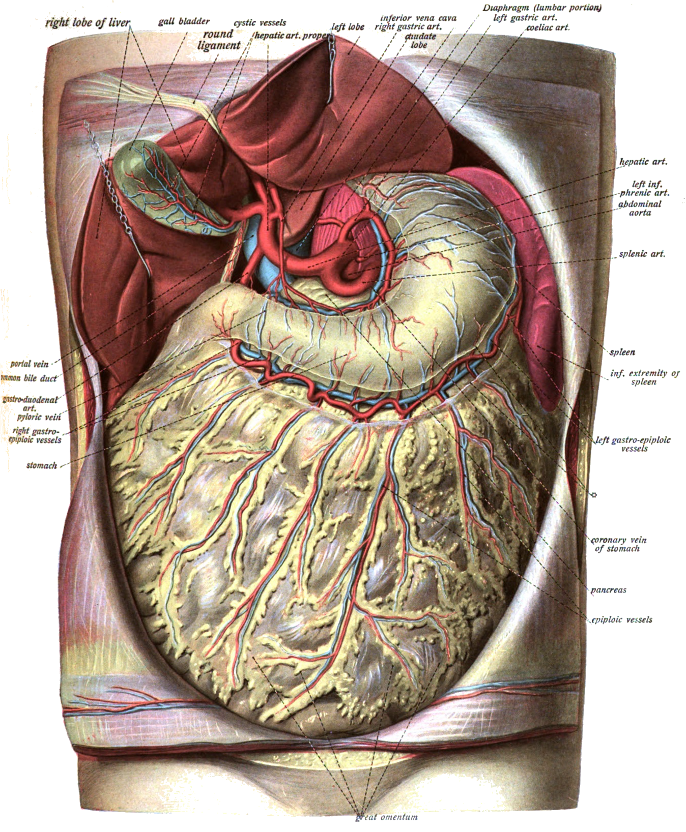 An anatomical illustration from Sobotta's Human Anatomy 1908